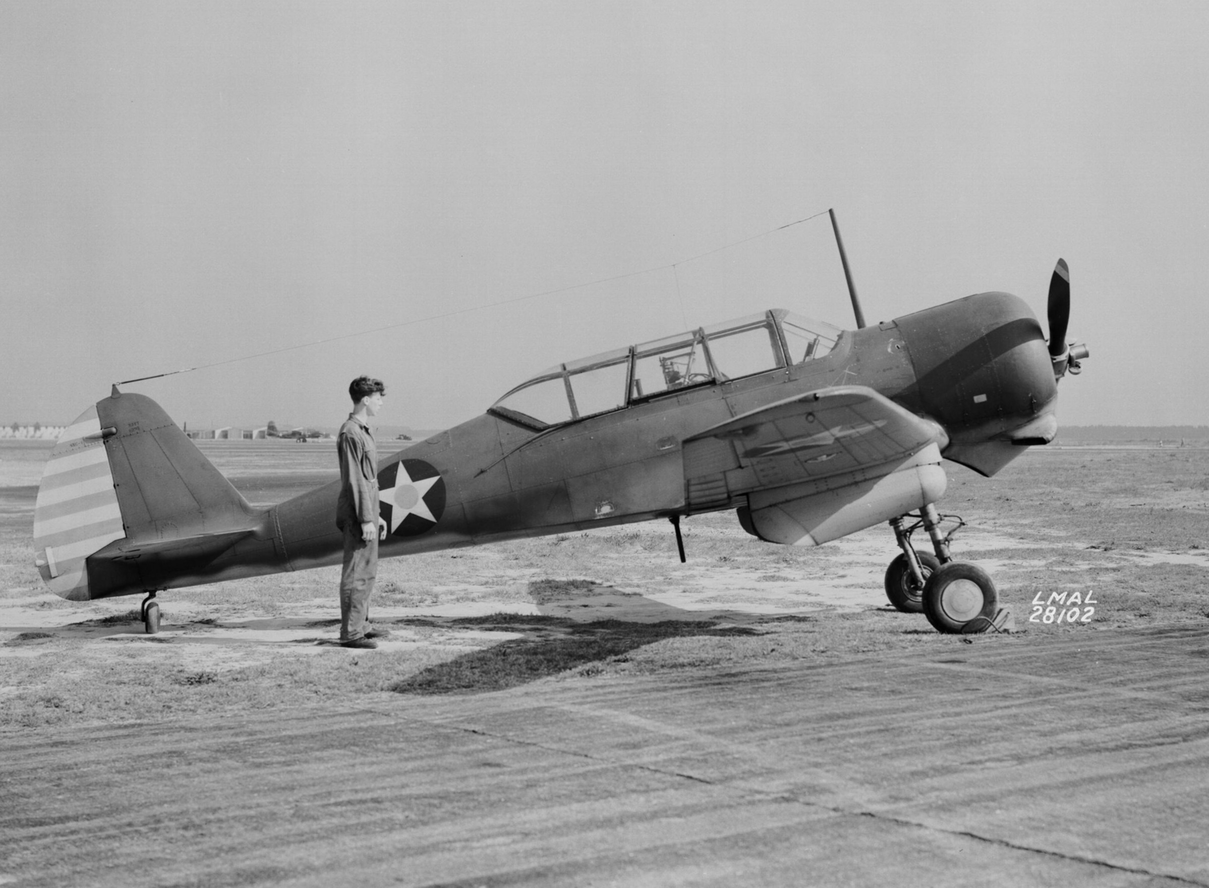 A U.S. Navy Curtiss SNC-1 Falcon trainer (BuNo 6293) at the NACA Langley Research Center, Virginia (USA), on 30 April 1942.